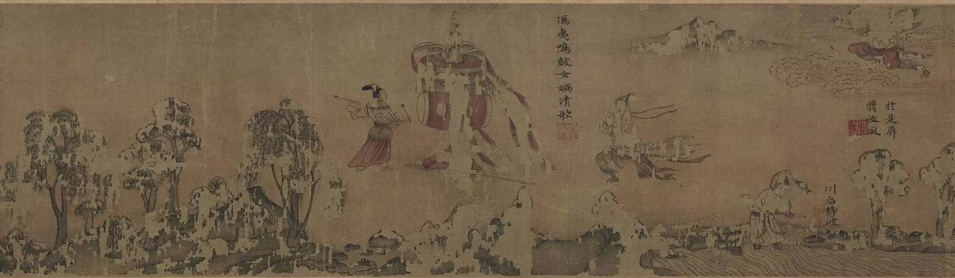 Goddess_of_luo_shui